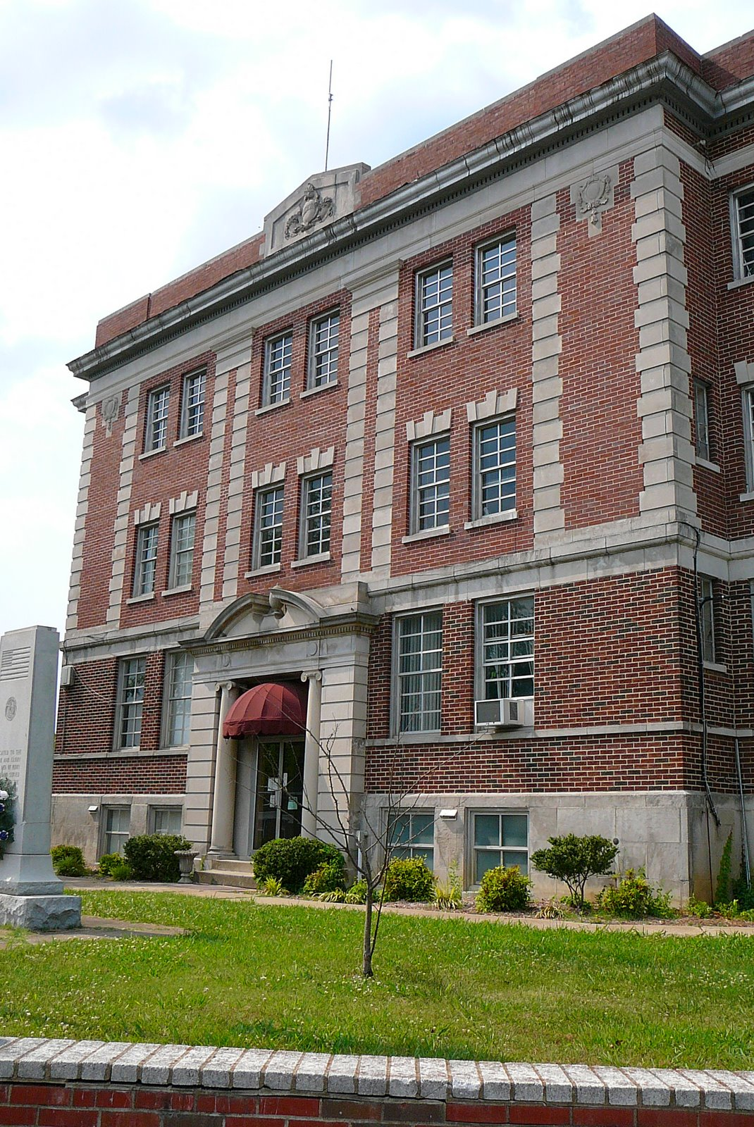 Perry County Courthouse (Tennessee) as viewed from US Route 412 in Linden, Tennessee.